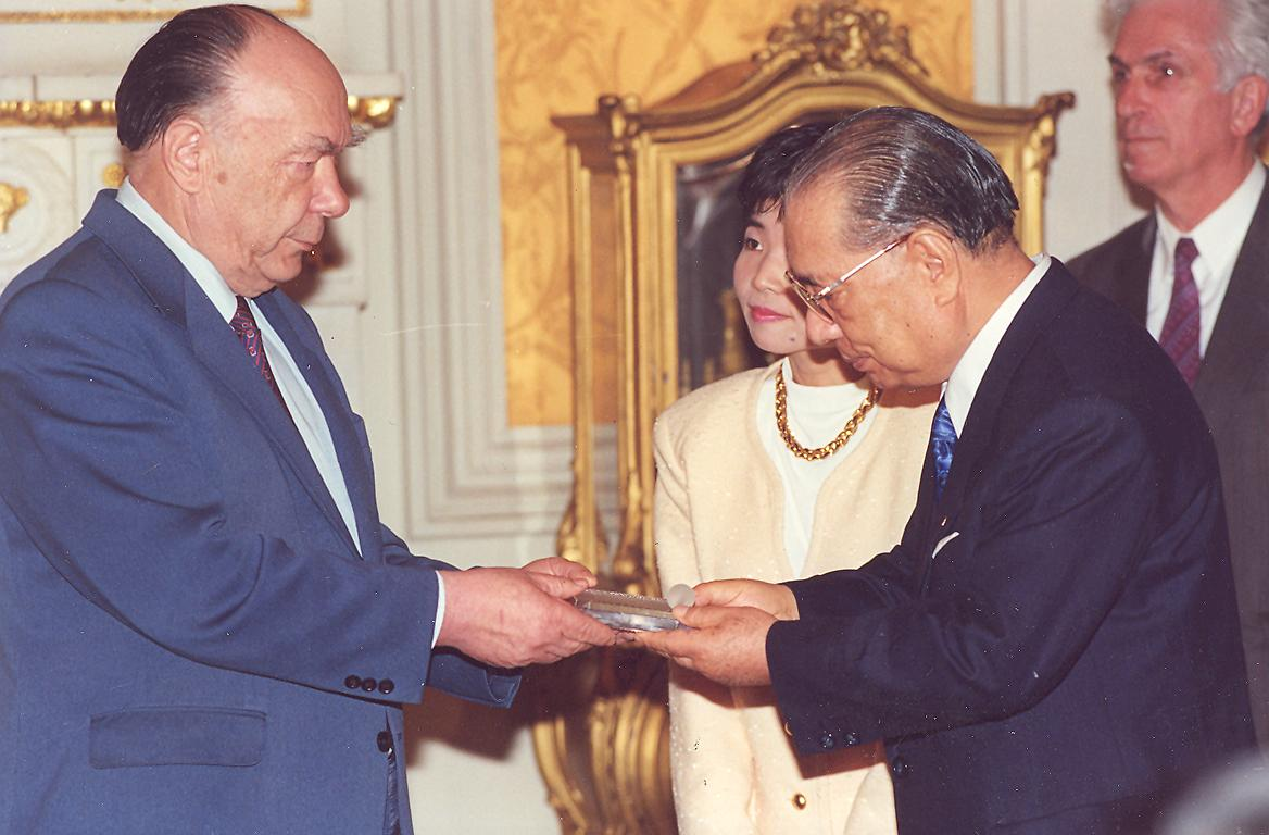 The Leonardo Prize, Alexander Nikolaevich Yakovlev and Daisaku Ikeda